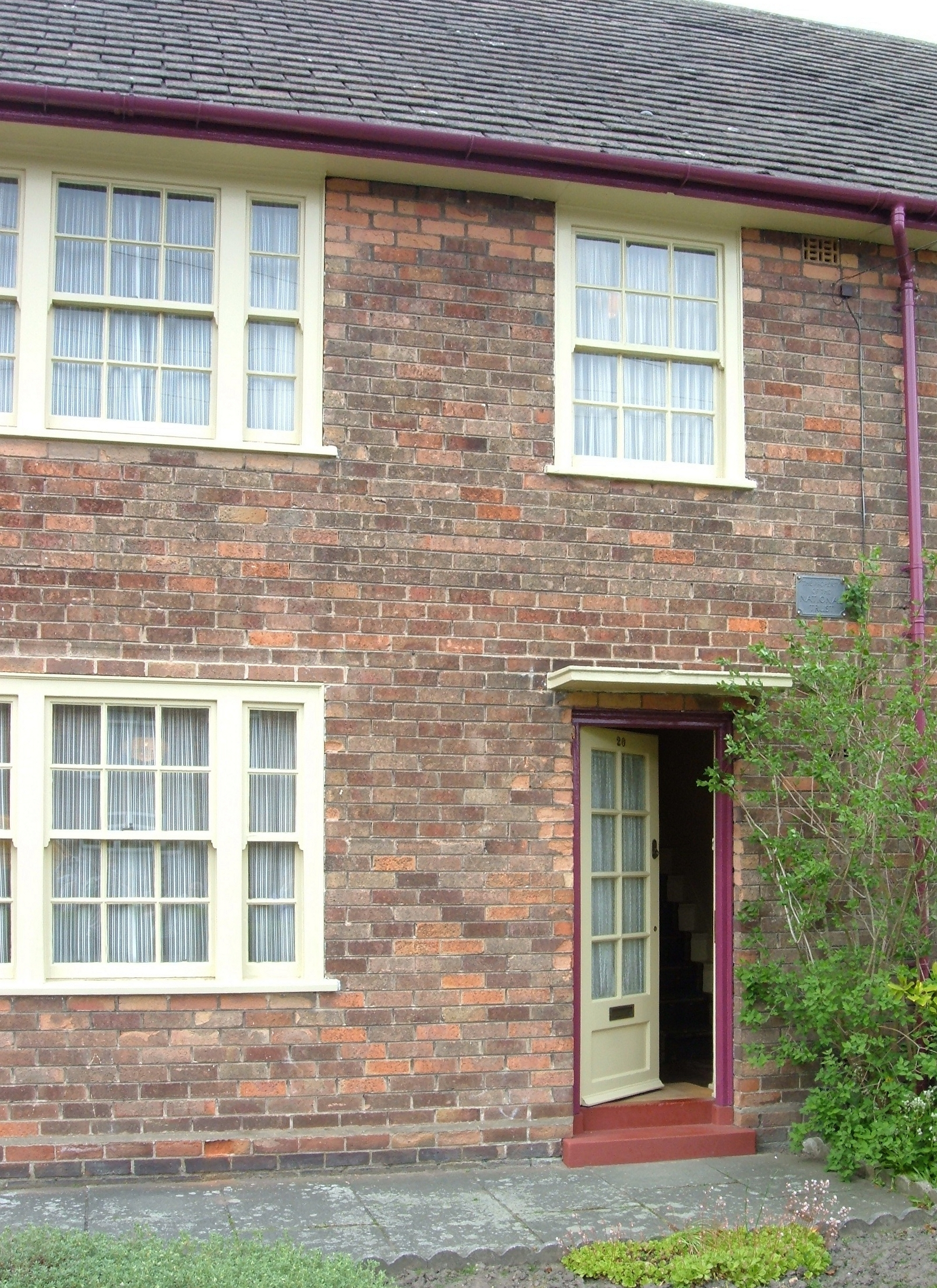 Paul McCartney's childhood home, taken by myself